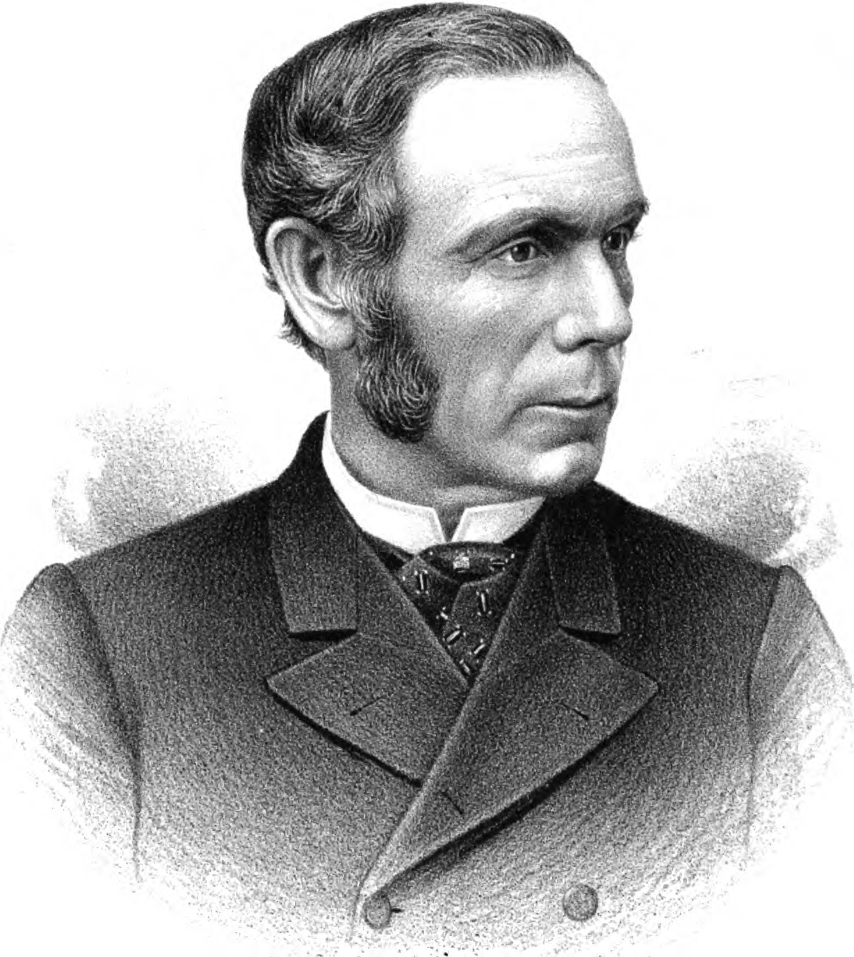 John G. Warwick was a politician from Ohio.